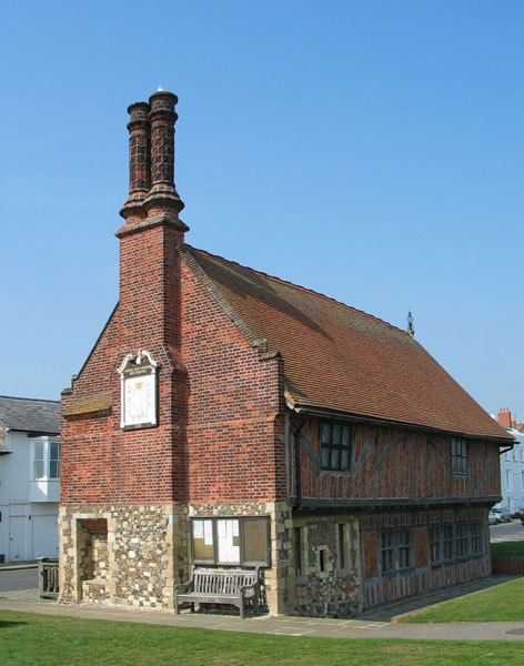 Moot Hall, Aldeburgh. Photo by Nevilley, 21/4/03.